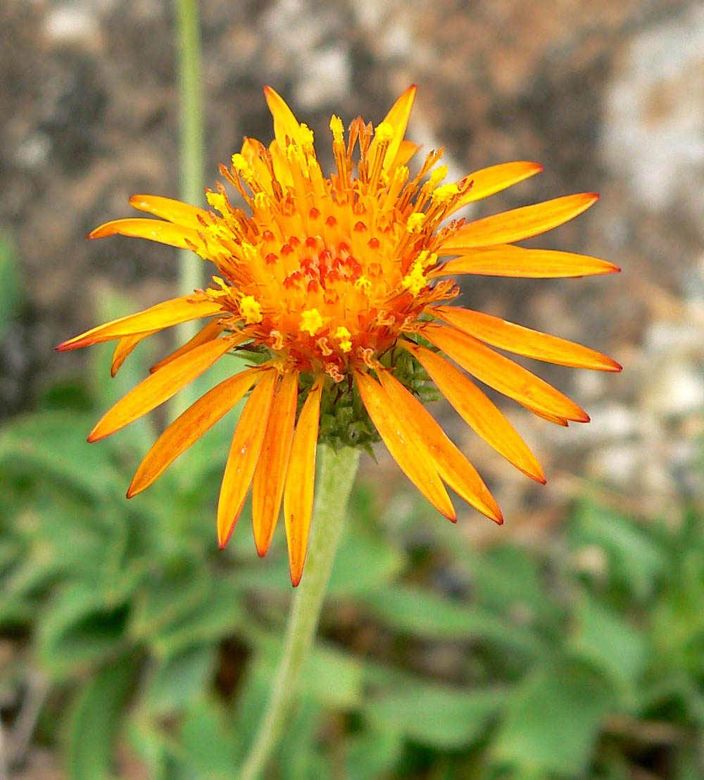 Photo of Haplopappus foliosus at the University of California Botanical Garden